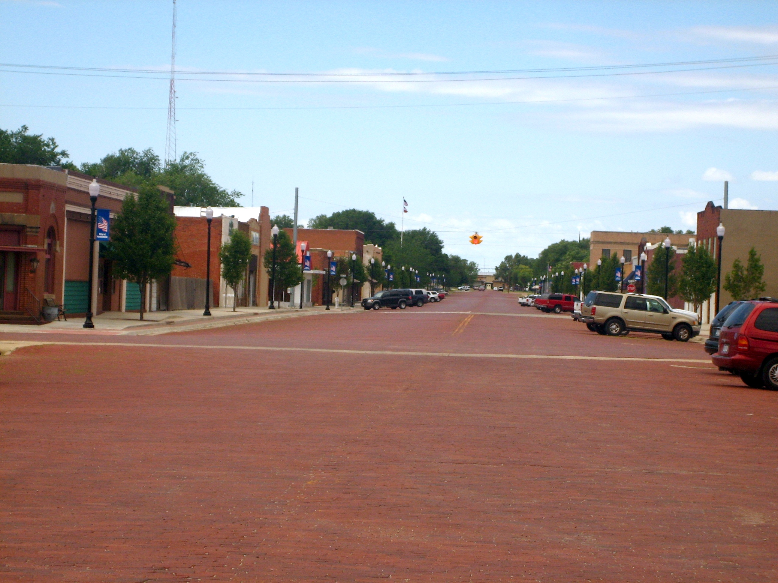 I took photo on July 15, 2008. Billy Hathorn (talk) 04:43, 18 October 2008 (UTC)